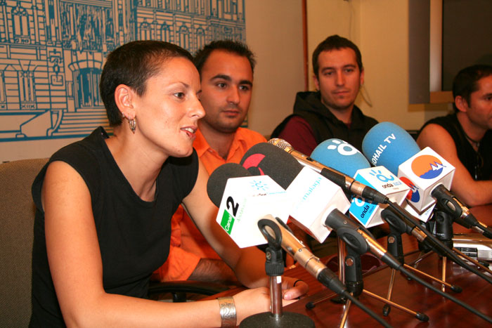 Spanish musical group Chambao. FESTIVAL ITINERANTE DE MÚSICAS ´06 MESTIZO 19/04/2006.- [ Festival Itinerante de Músicas es una propuesta artística que pretende reunir artistas con un vínculo común: el mestizaje de músicas con el flamenco como referente. Este festival nace con ánimo de permanecer y consolidarse en el panorama de las músicas alternativas como un laboratorio de mezclas para un público amplio y variado. Los artistas que participan se conocen tanto personal como artísticamente, han coincidido en multitud de conciertos comunes y han ido conformando, sin saberlo, una nueva generación de artistas. MESTIZOS es un proyecto abierto que pretende configurarse ante todo como una reunión de artistas. A día de hoy, el nuevo flamenco interpretado por estos artistas es el vehículo fundamental, pero nace sin ánimo de tener límites en las fronteras, ni criterios musicales excluyentes. [1]